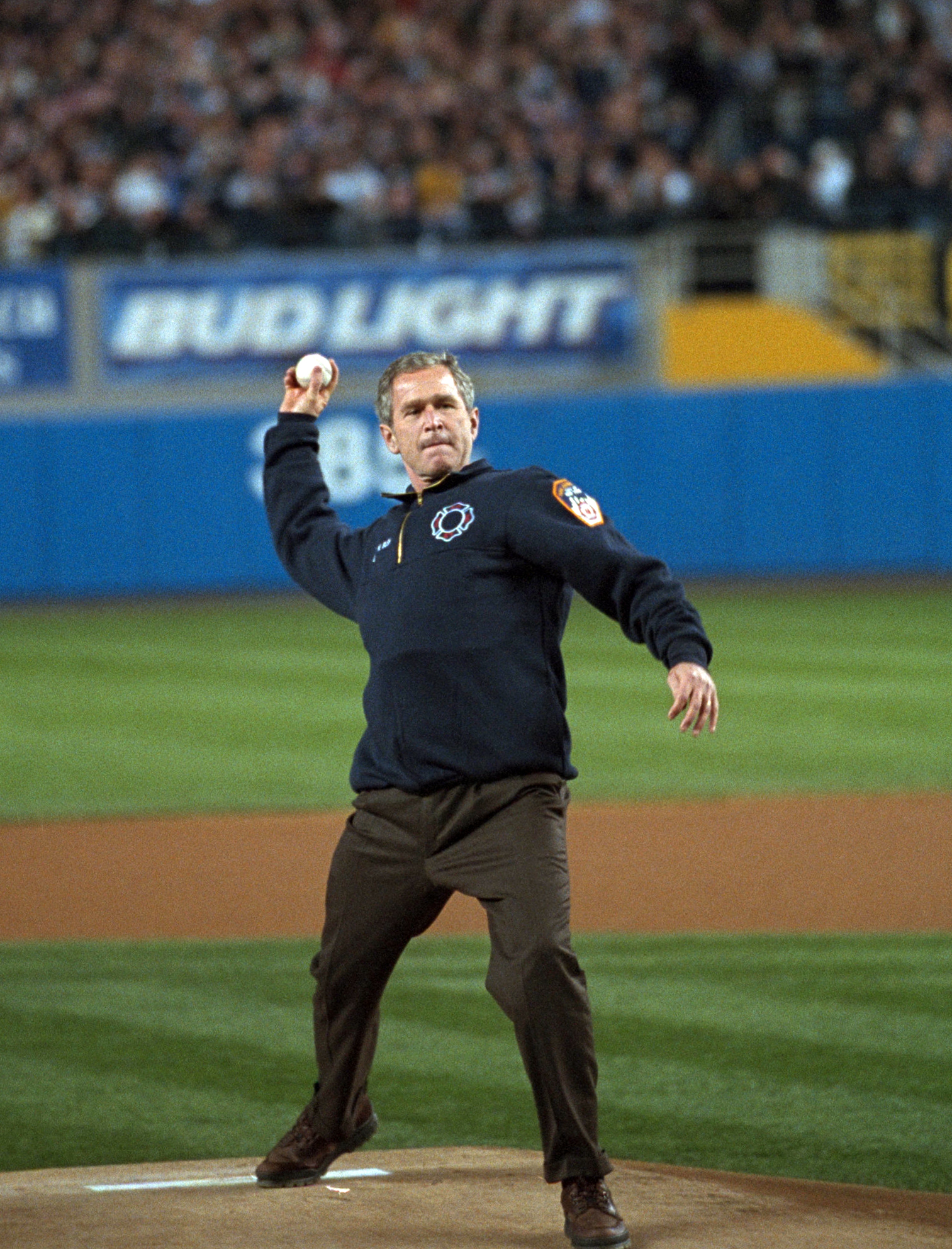 President George W. Bush throws out the first pitch during game three of the World Series game between the Arizona Diamondbacks and the Yankees at Yankee Stadium Oct. 30, 2001.